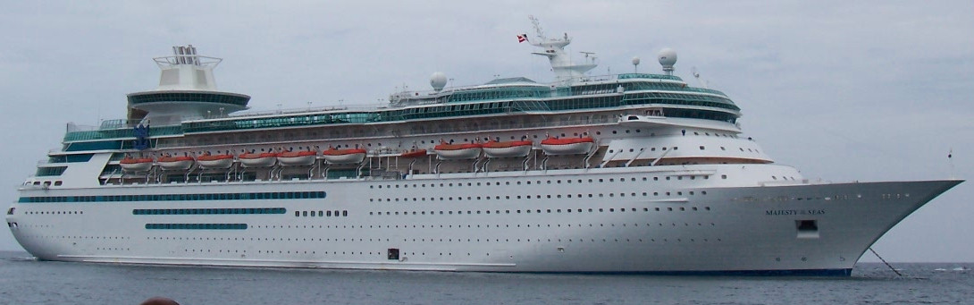 Picture of the Majesty of the Seas anchored off Coco Cay. Taken by Wknight94 from a tender on August 9, 2006.